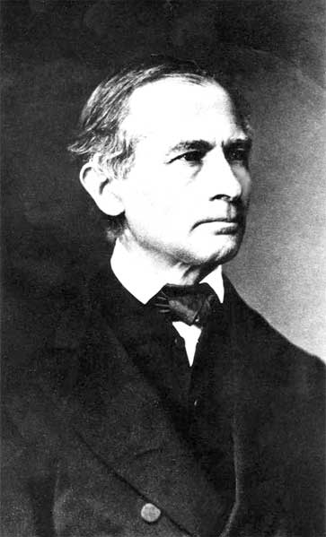 Johann Gottfried Galle, , german astronomer, first to look at Neptune